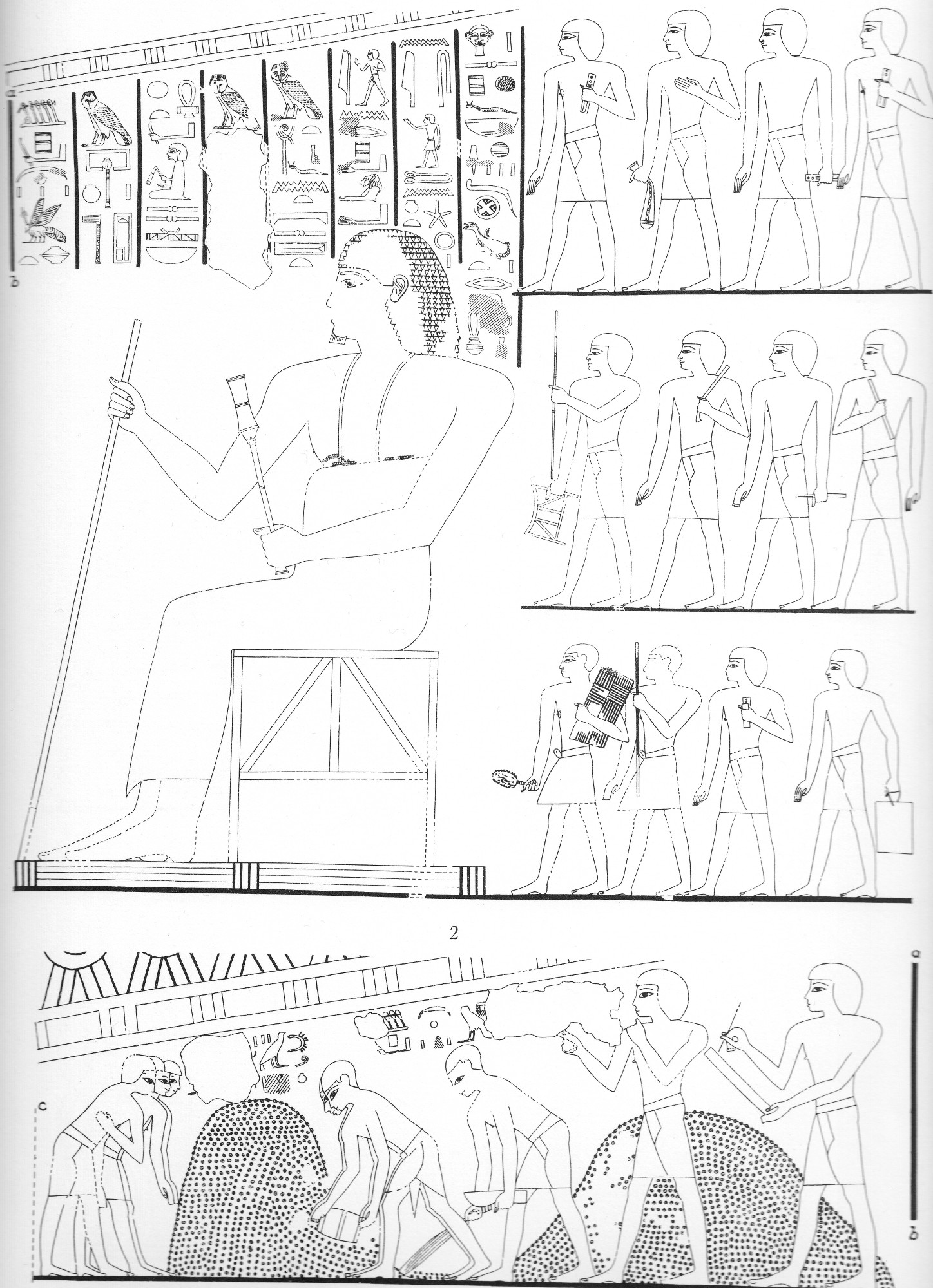 Scene from the Tomb of Rekhmira at Thebes, New Kingdom. The passage, south wall: Rekhmira presides over the magazines.